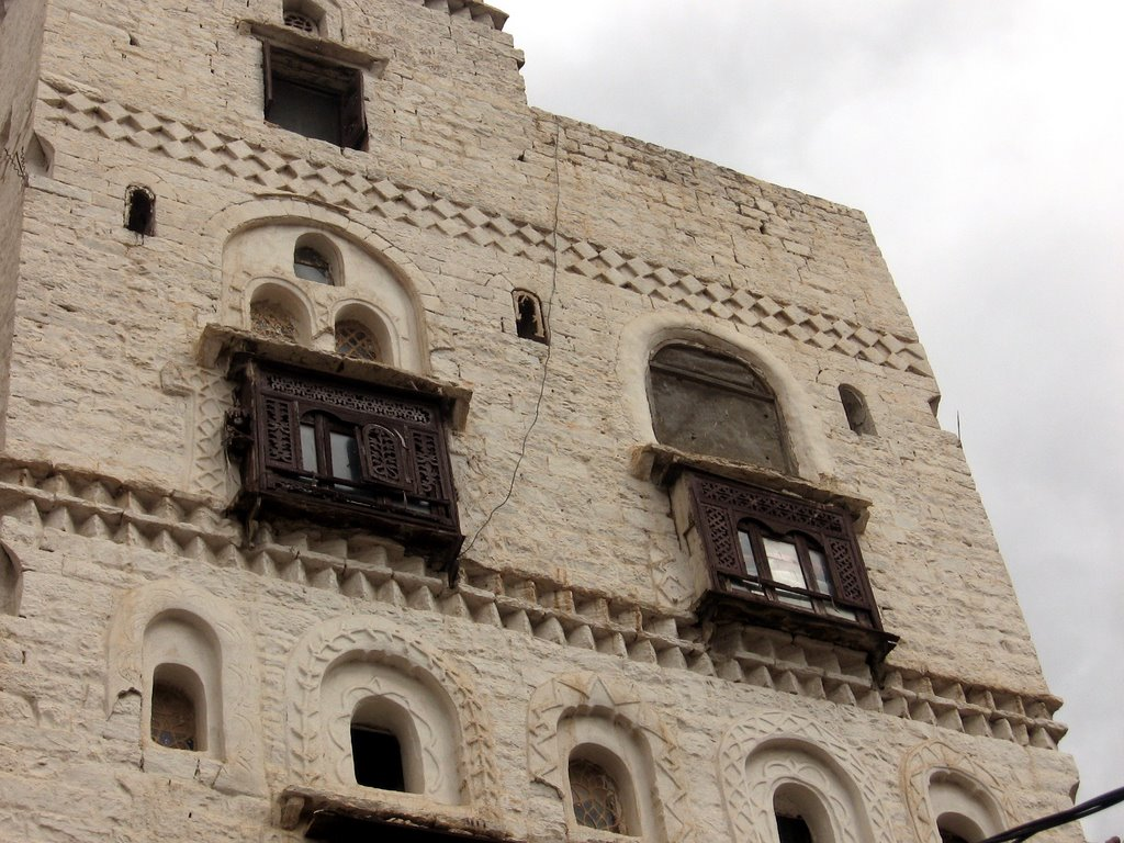 windows in Ibb